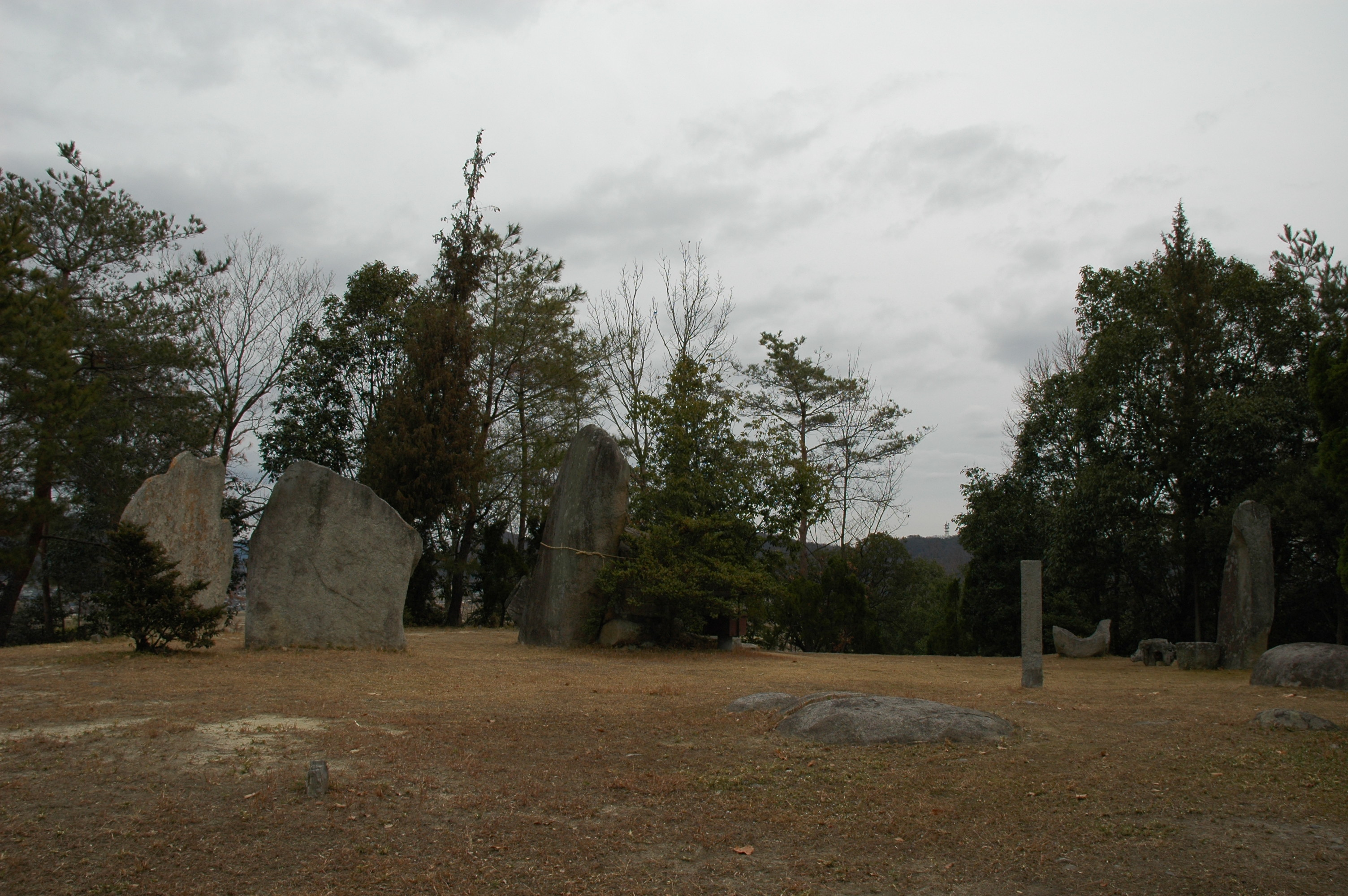 Tatetsuki site (Tatetsuki iseki, designated as Japan's national historical site) in Yabe, Kurashiki, Okayama, Japan. An ancient tumulus constructed in the late Yayoi period (3rd century).